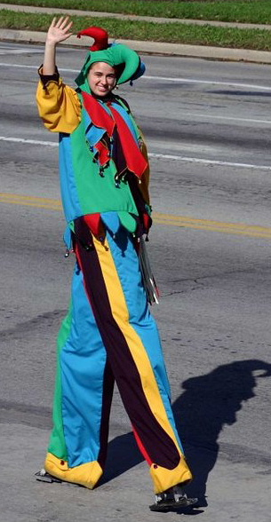 Stiltwalker